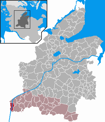 Locator maps of municipalities in Schleswig-Holstein - District Rendsburg-Eckernförde